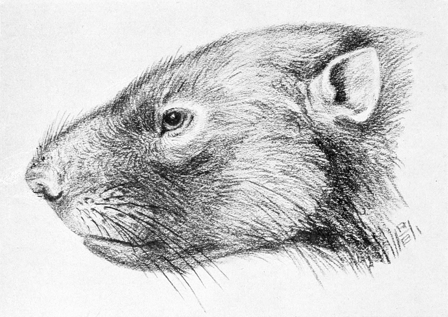 Life restoration of Taeniolabis (formerly Polymastodon) taoensis from W.B. Scott's "A History of Land Mammals in the Western Hemisphere." New York: The Macmillan Company.